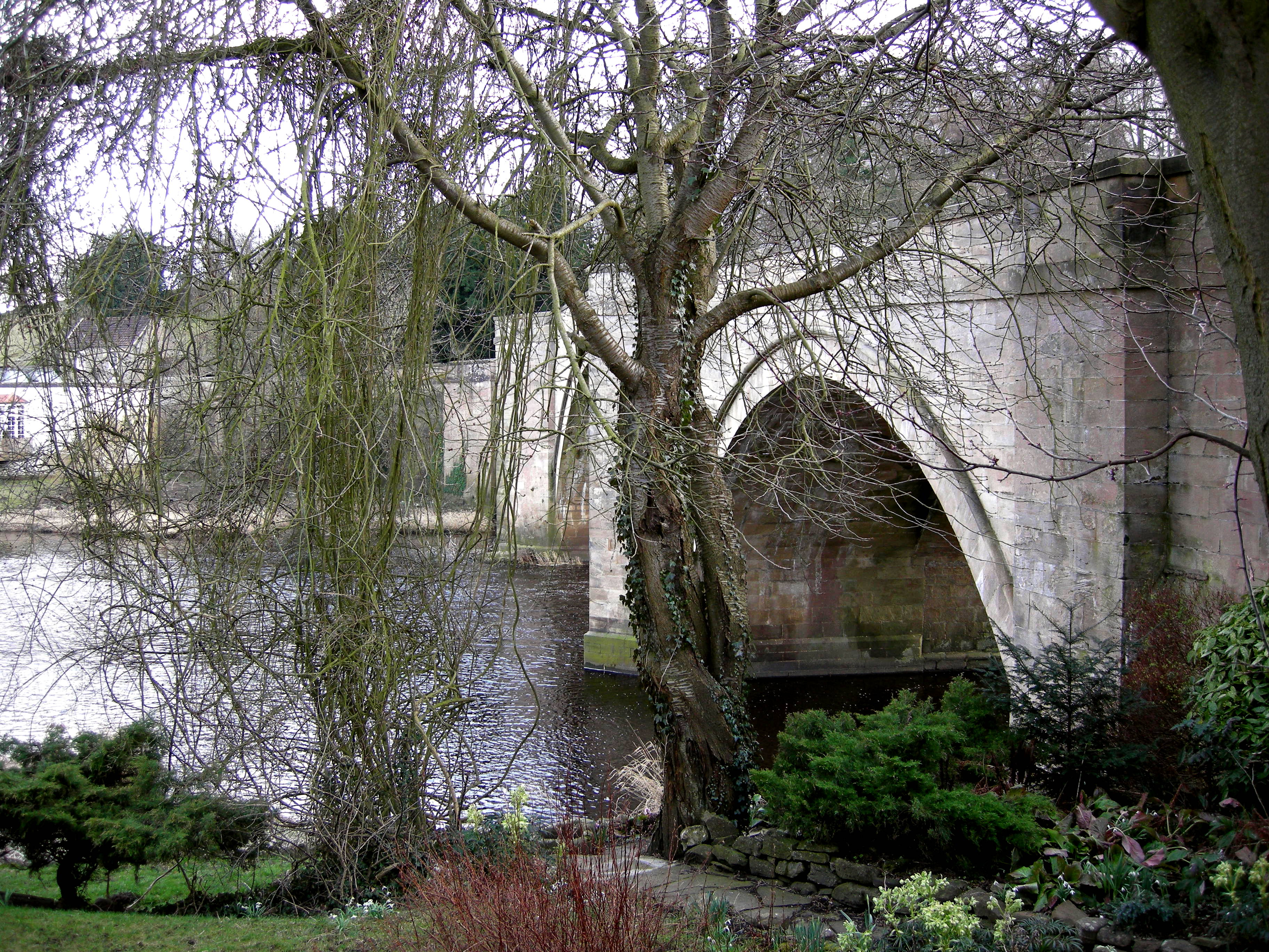 Piercebridge Roman fort, Piercebridge, County Durham, England.